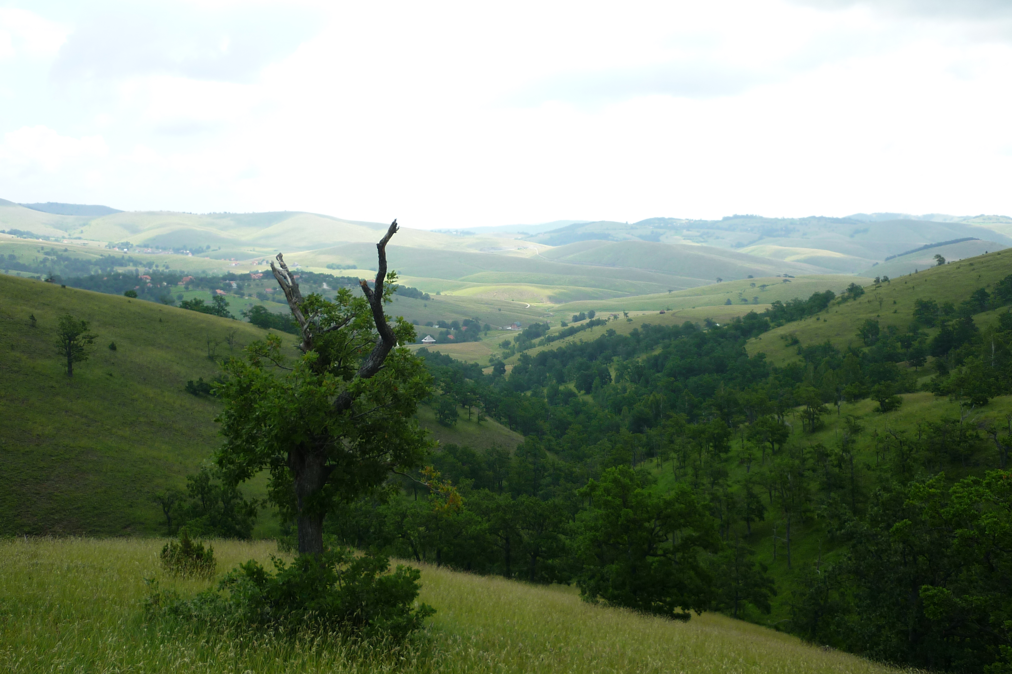 On the way to the mountain cigota.